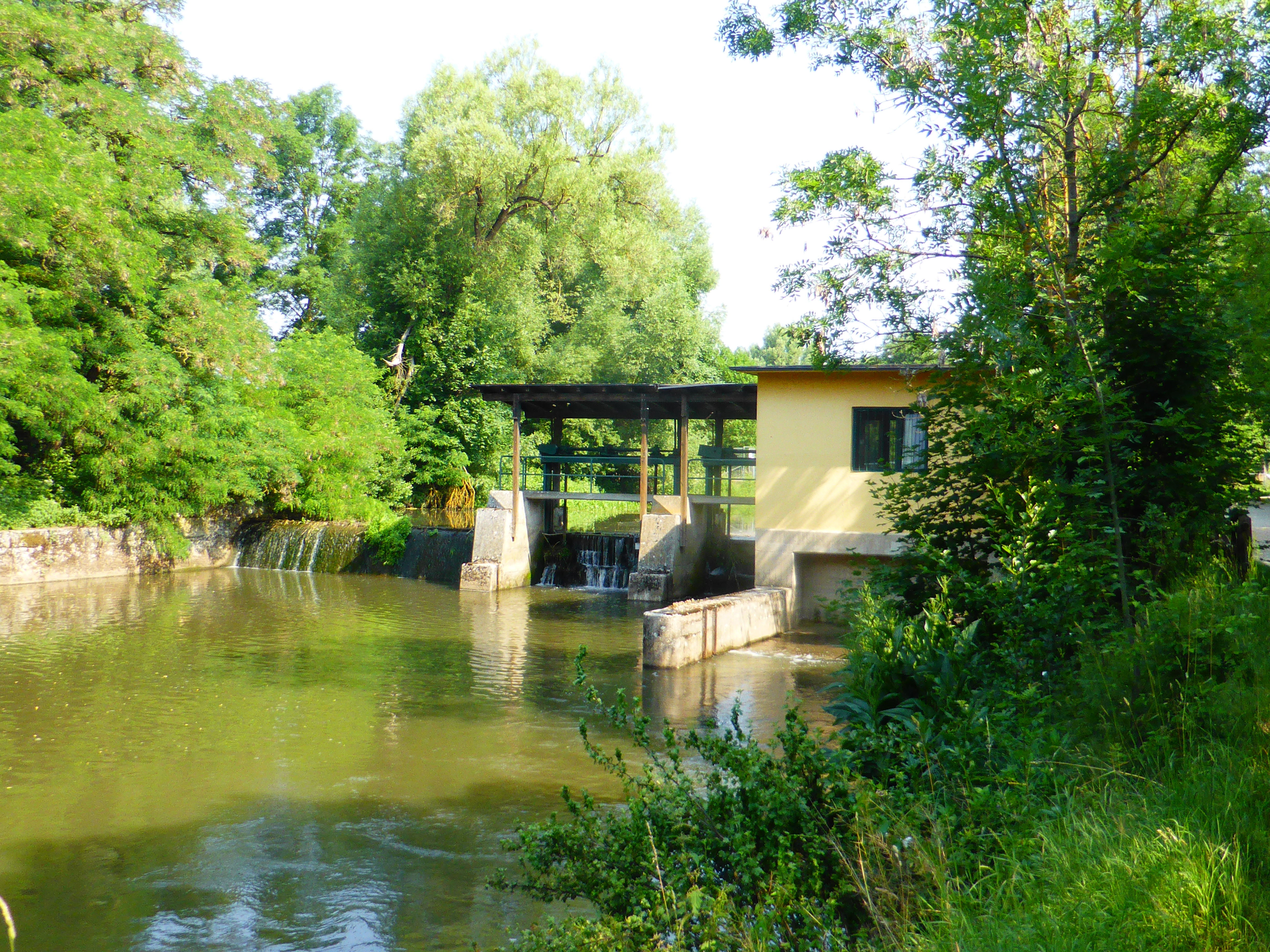 Drahthammer (Amberg) - Stauwerk